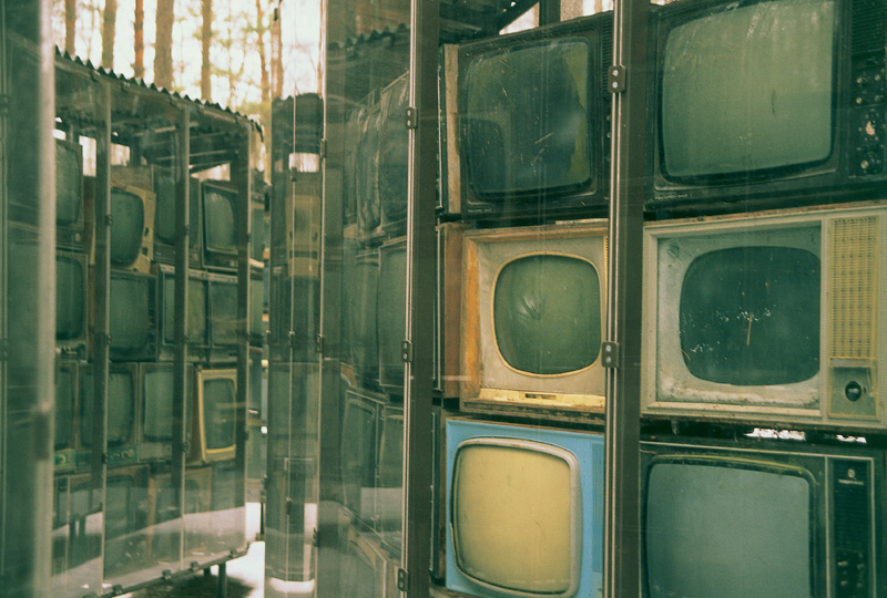 Acknowledged by Guinness World Records the word's largest artwork of TV sets creted by Karosas